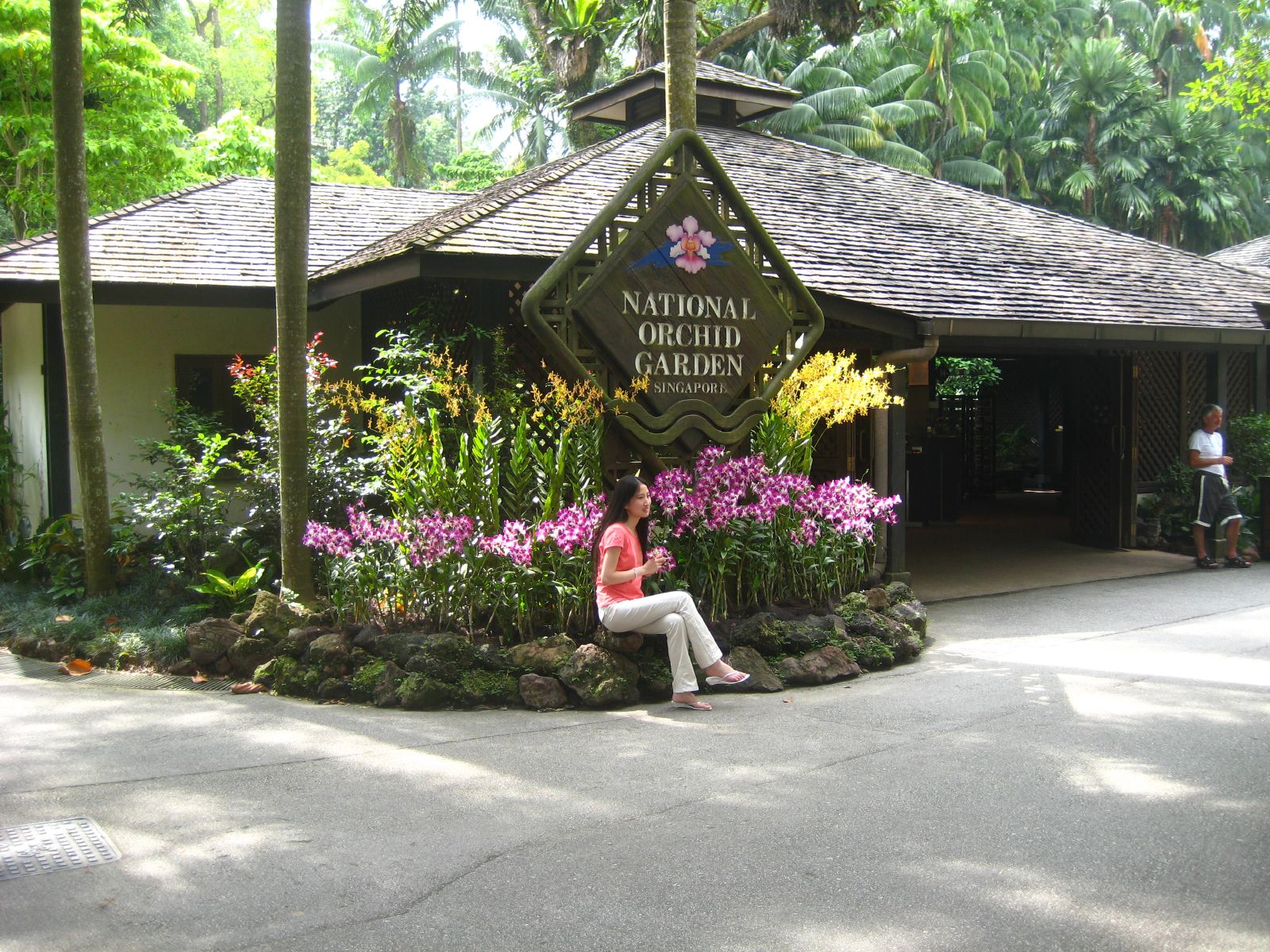 National Orchid Garden, Singapore.